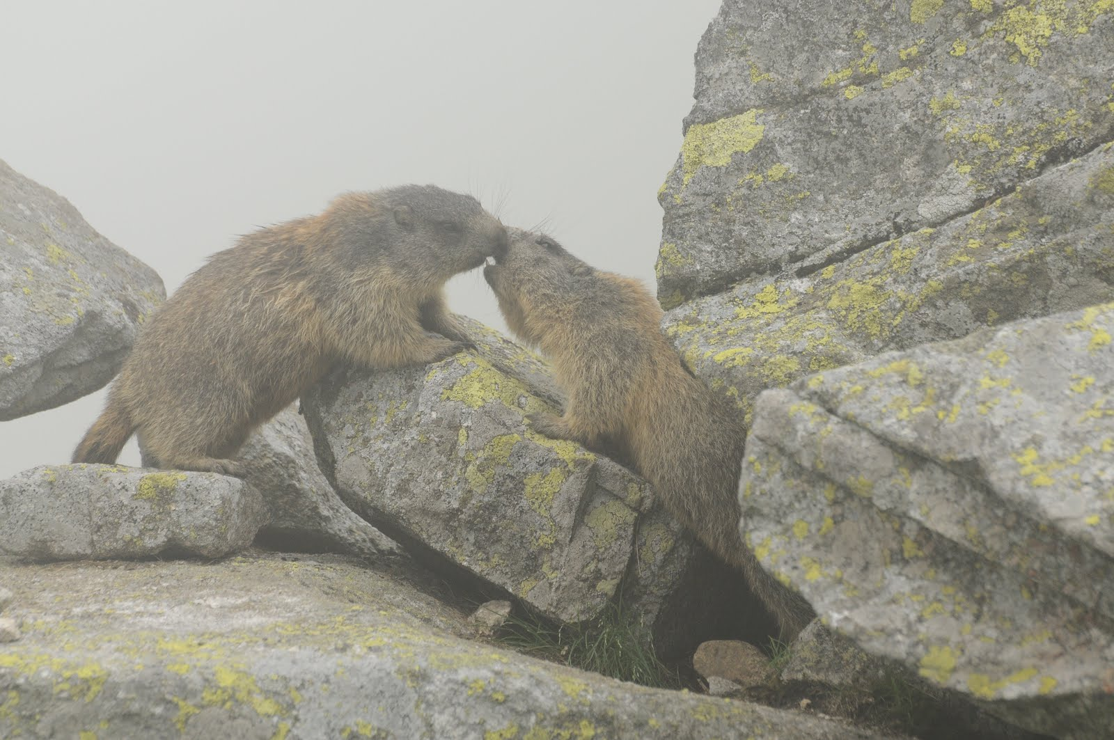 M.marmota latirostris in Kozia Dolinka in Tatra Mountains